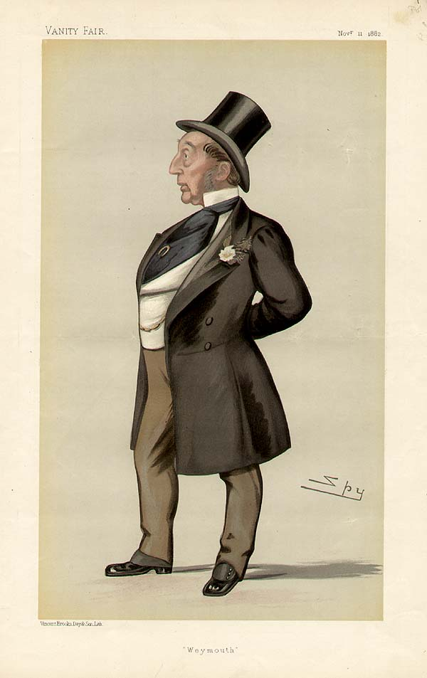 Statesmen No.415: Caricature of Mr Henry Edwards MP. Caption reads: "Weymouth"